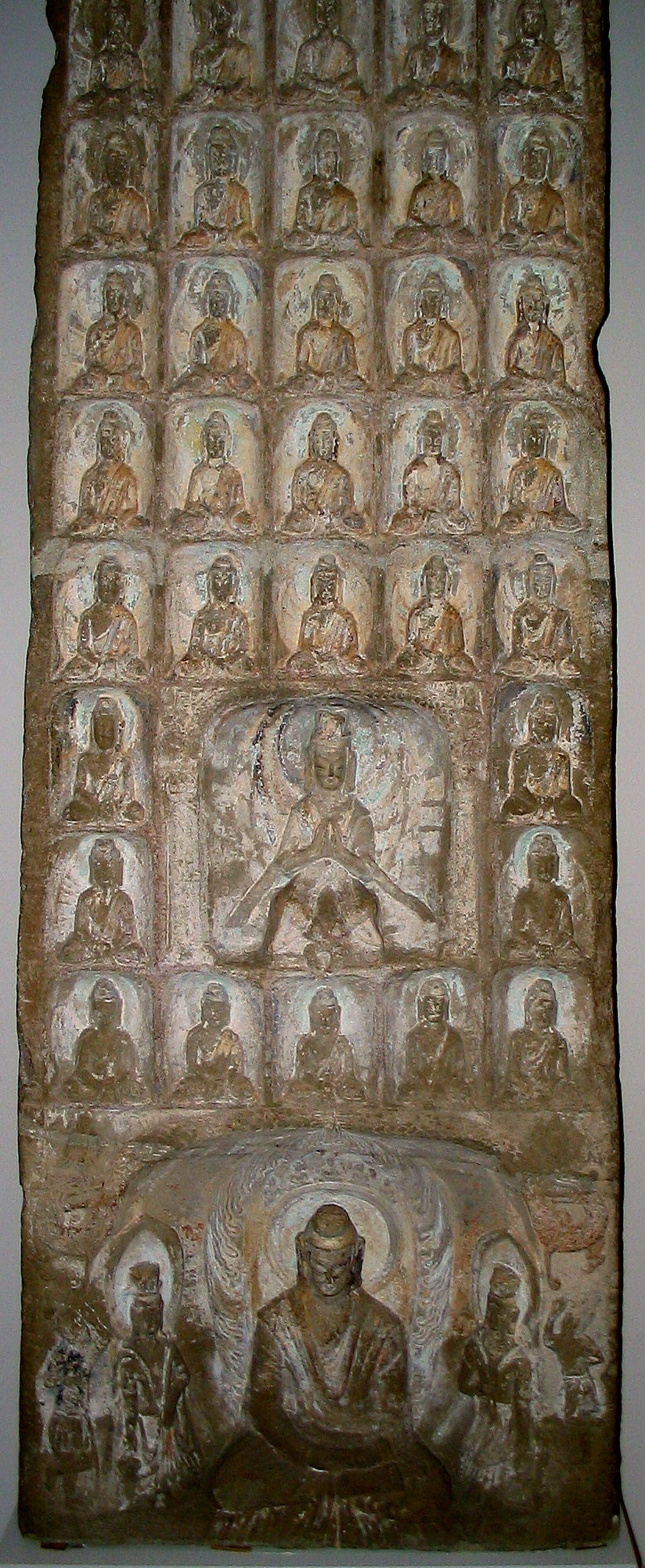 A Buddhist Stela from China, Northern Wei period, build in the early 6th century. It's made of sandstone, and there are traces of paint. The image is of several Buddhas. This exhibit is housed in the Smithsonian in Washington D.C.